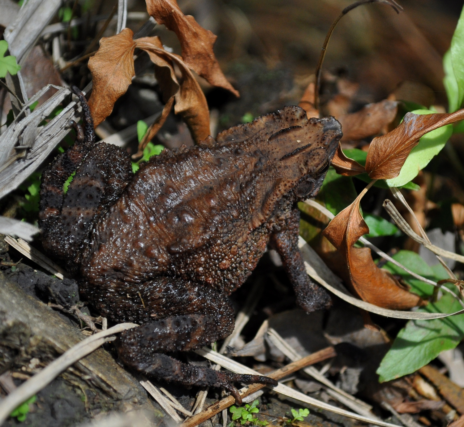 Swamp toad (Ingerophrynus quadriporcatus). From Sambas, West Kalimantan, Indonesia.